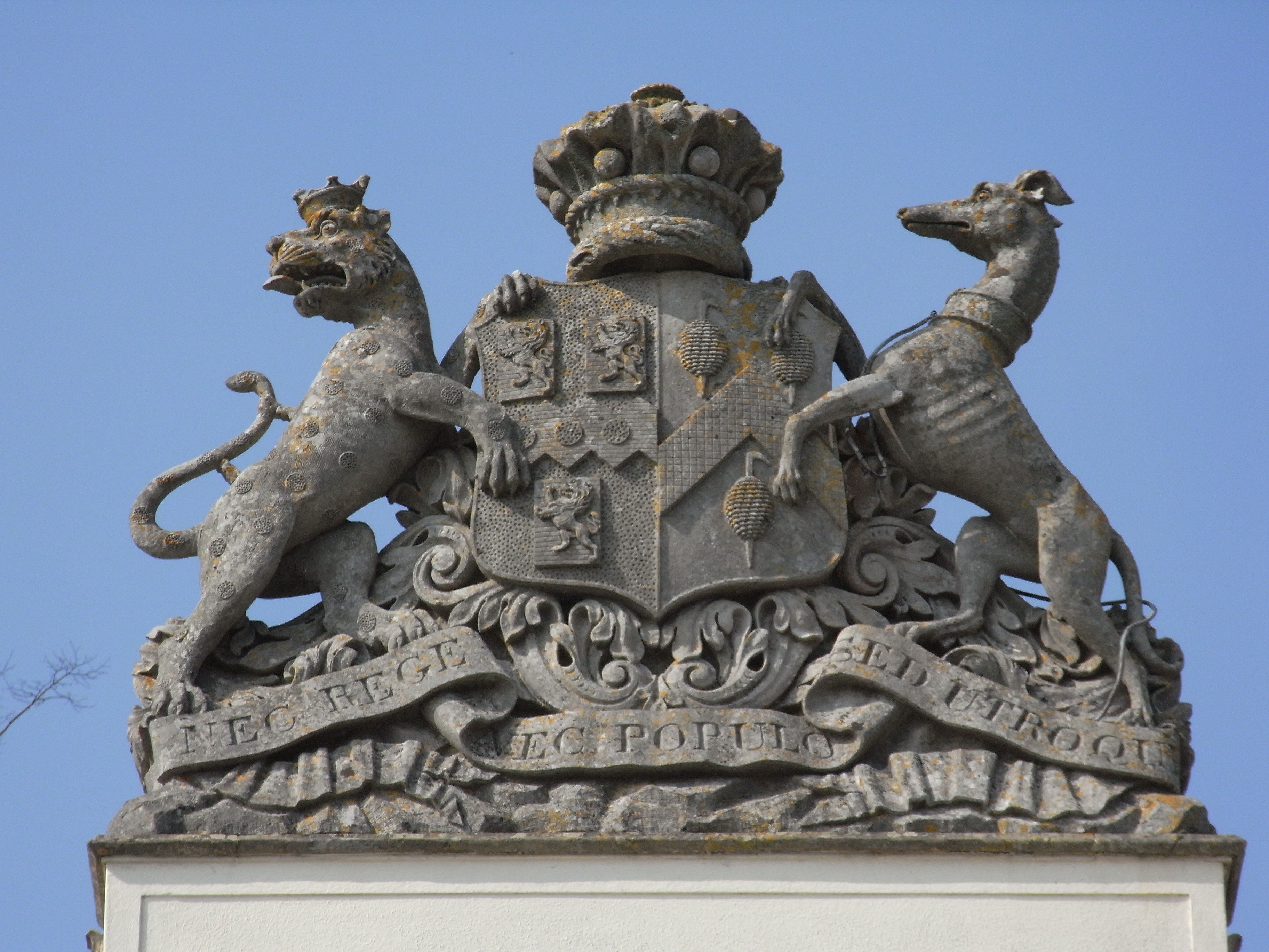 Heraldic achievement of Baron Rolle (d.1842) on top of main gates to Bicton House, Exeter, Devon. The escutcheon shows Rolle impaling Trefusis (Argent, a chevron between three spindles sable), the family of his second wife. The sinister (right-hand of viewer) supporter, a greyhound, is that of Trefusis. Latin motto of Rolle: Nec Rege, Nec Populo, Sed Utroque ("Not with the King, not with the People, but on both sides")